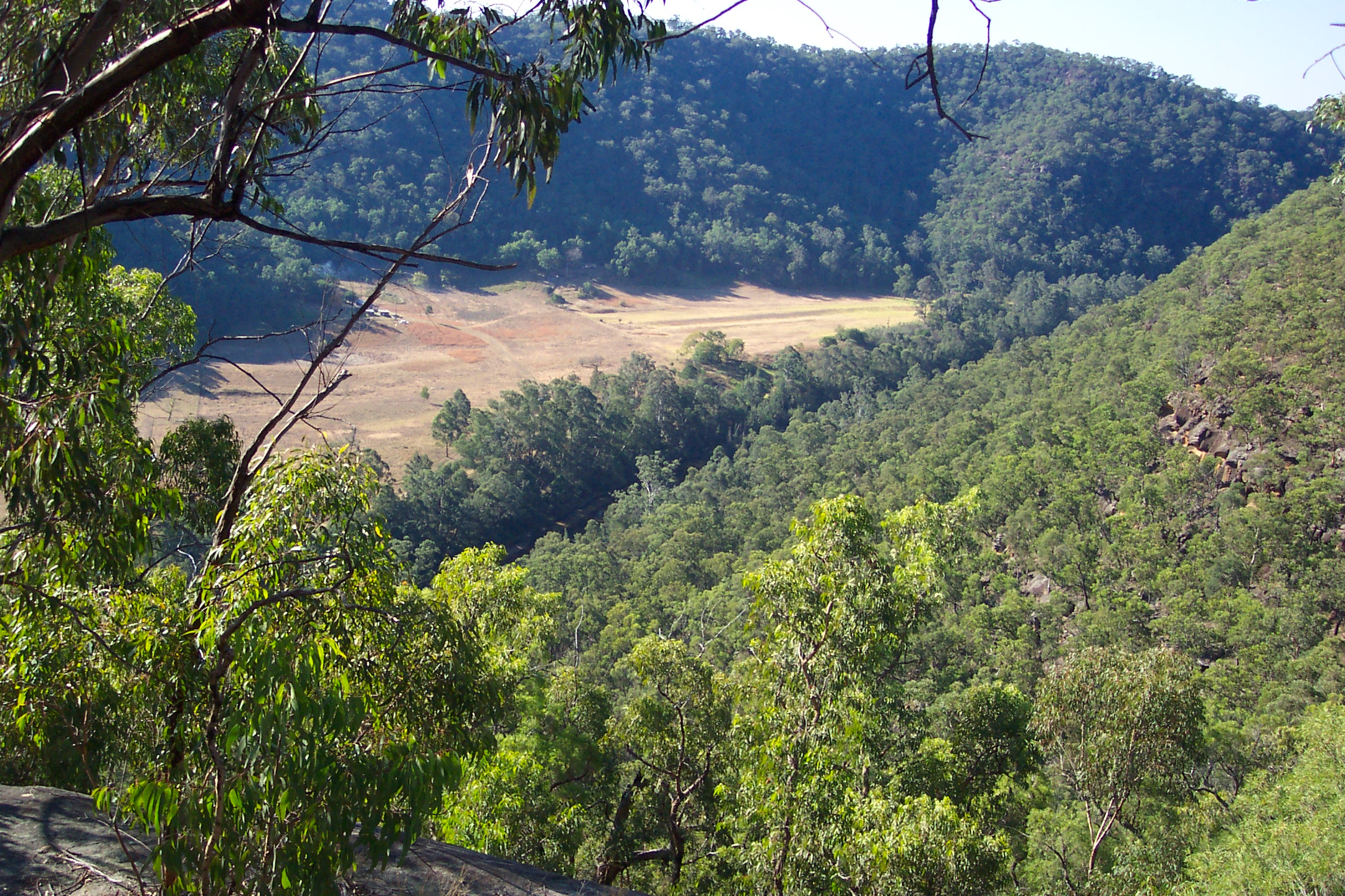 The Colo River valley as seen from the Wollemi National Park.